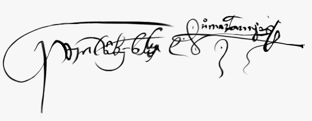 Pedro Álvares Cabral signature.